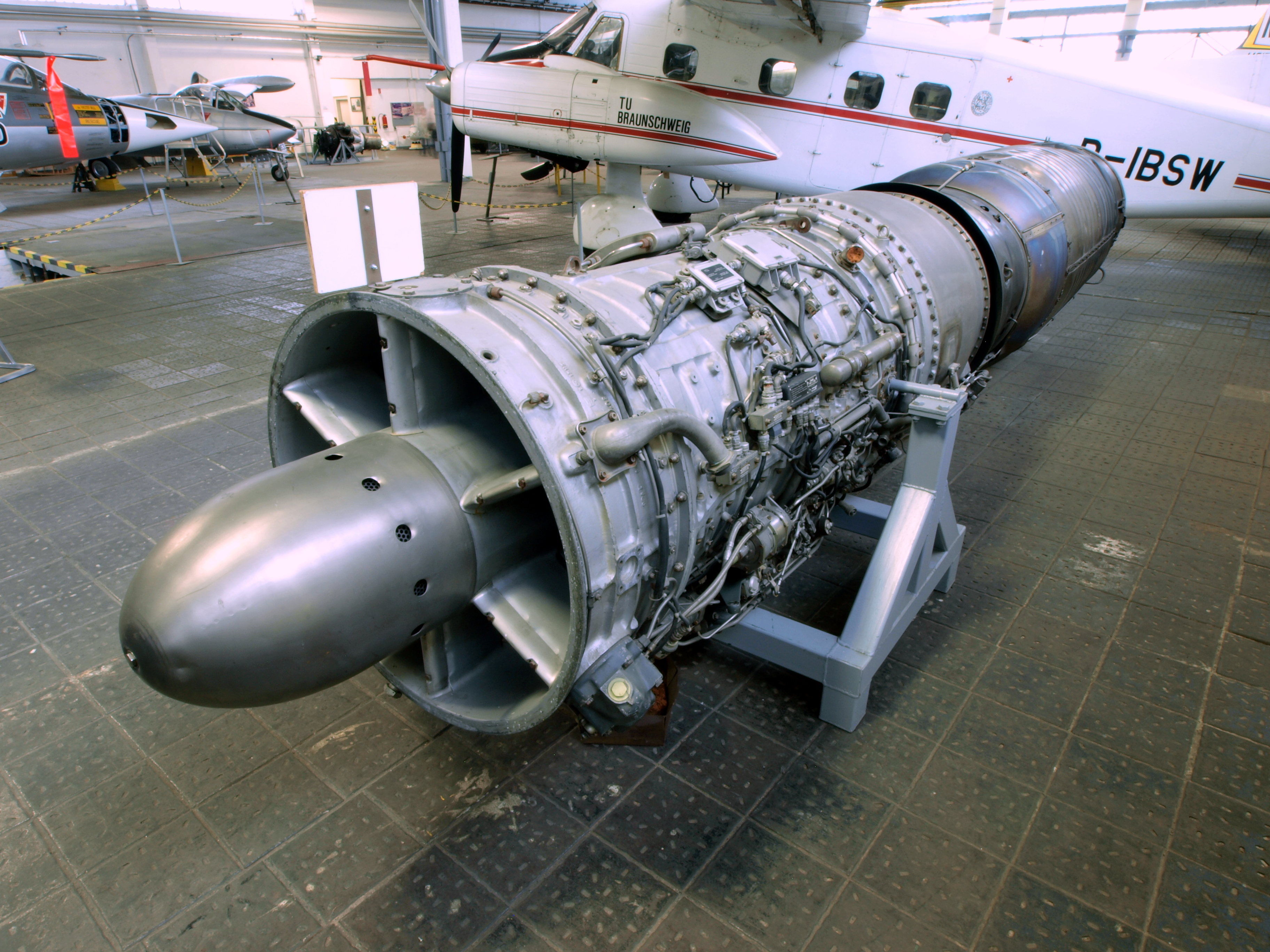 SNECMA Atar of a Mirage III RS